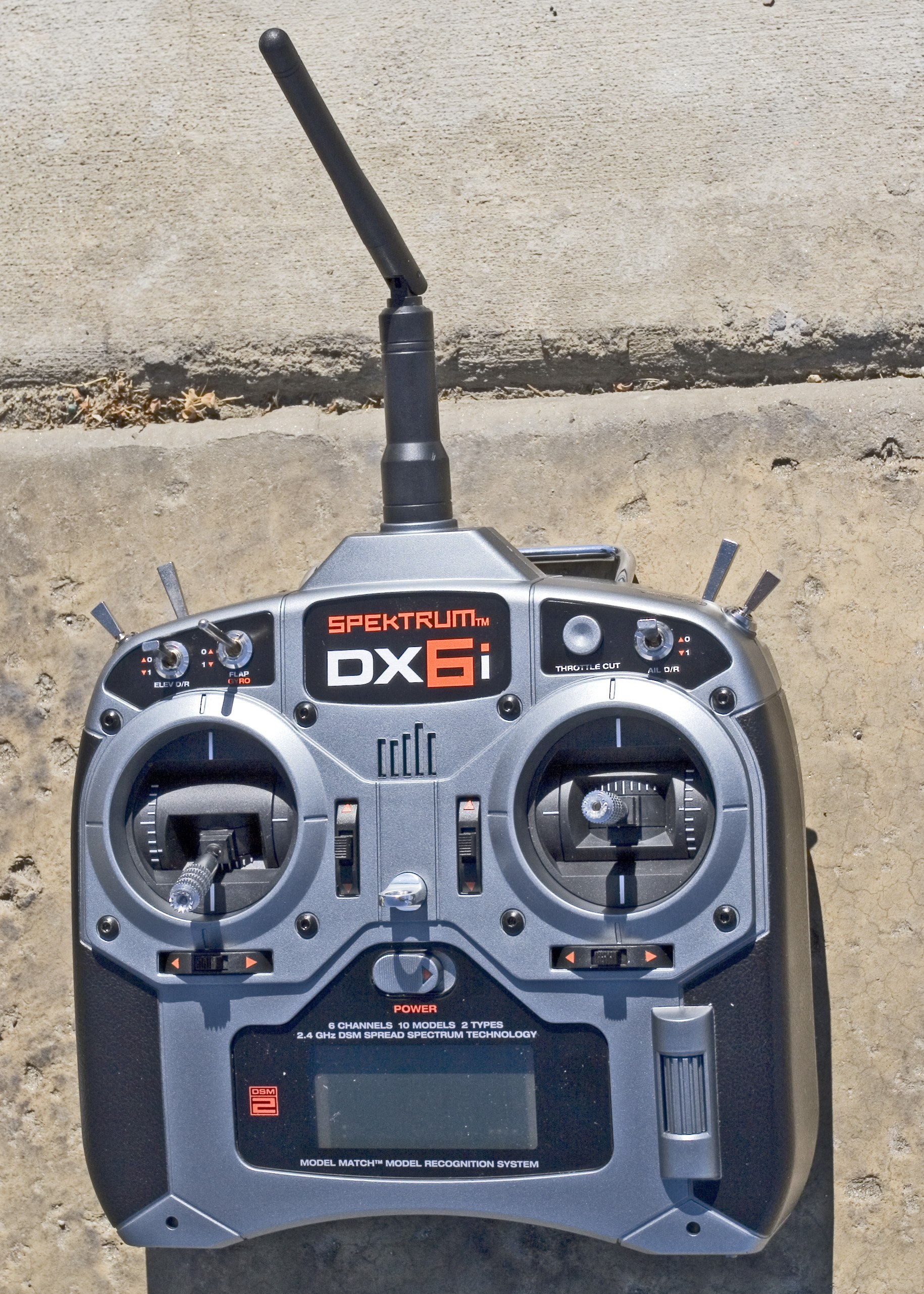 Spektrum DX6i 2.4GHz spread spectrum radio controlled aircraft model transmitter owned by User SayCheese!. Joint creation with photographer Ken Alan.